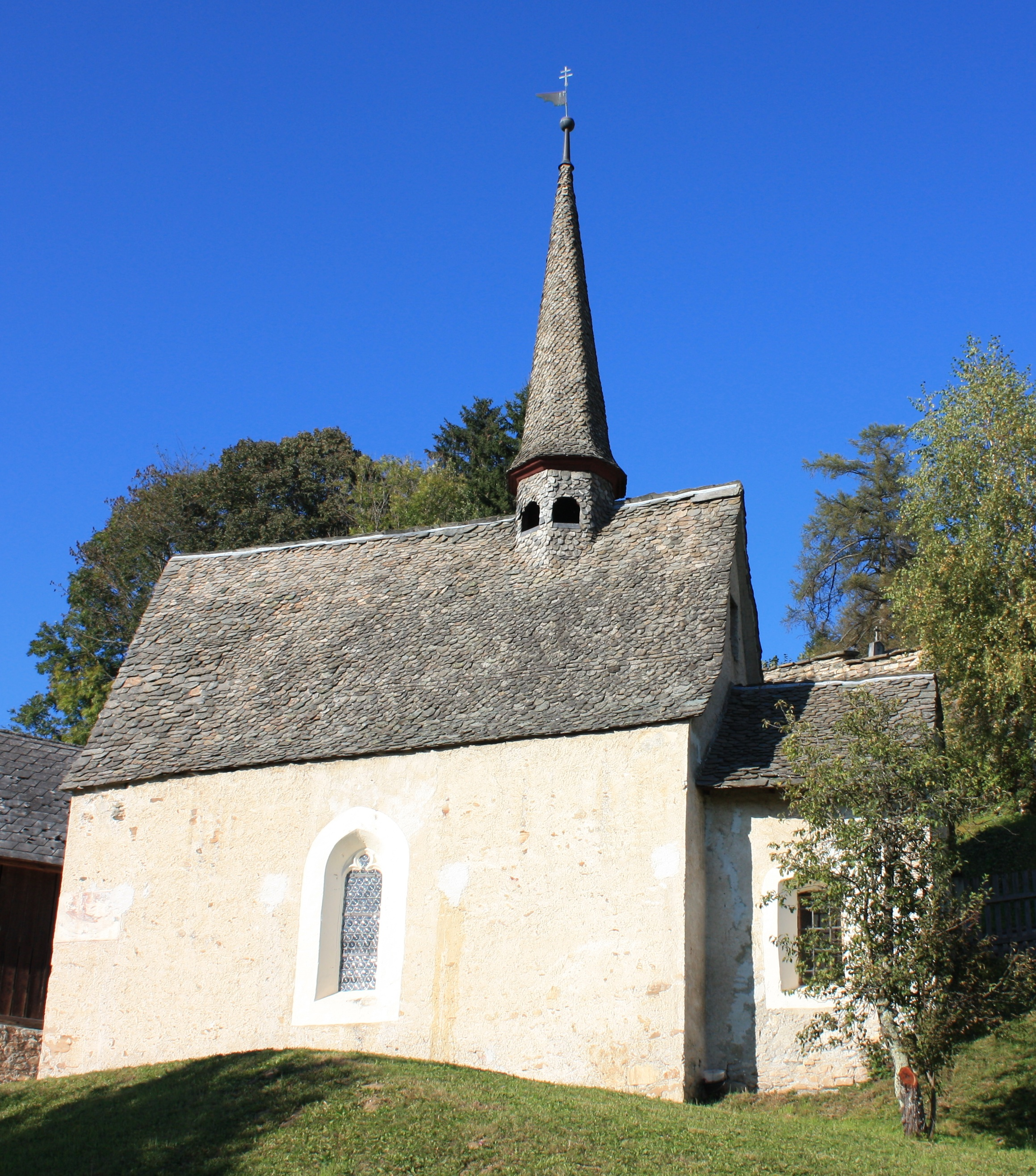 Gothic chapel Saint Ulrich Locality: Kraig Community:Frauenstein